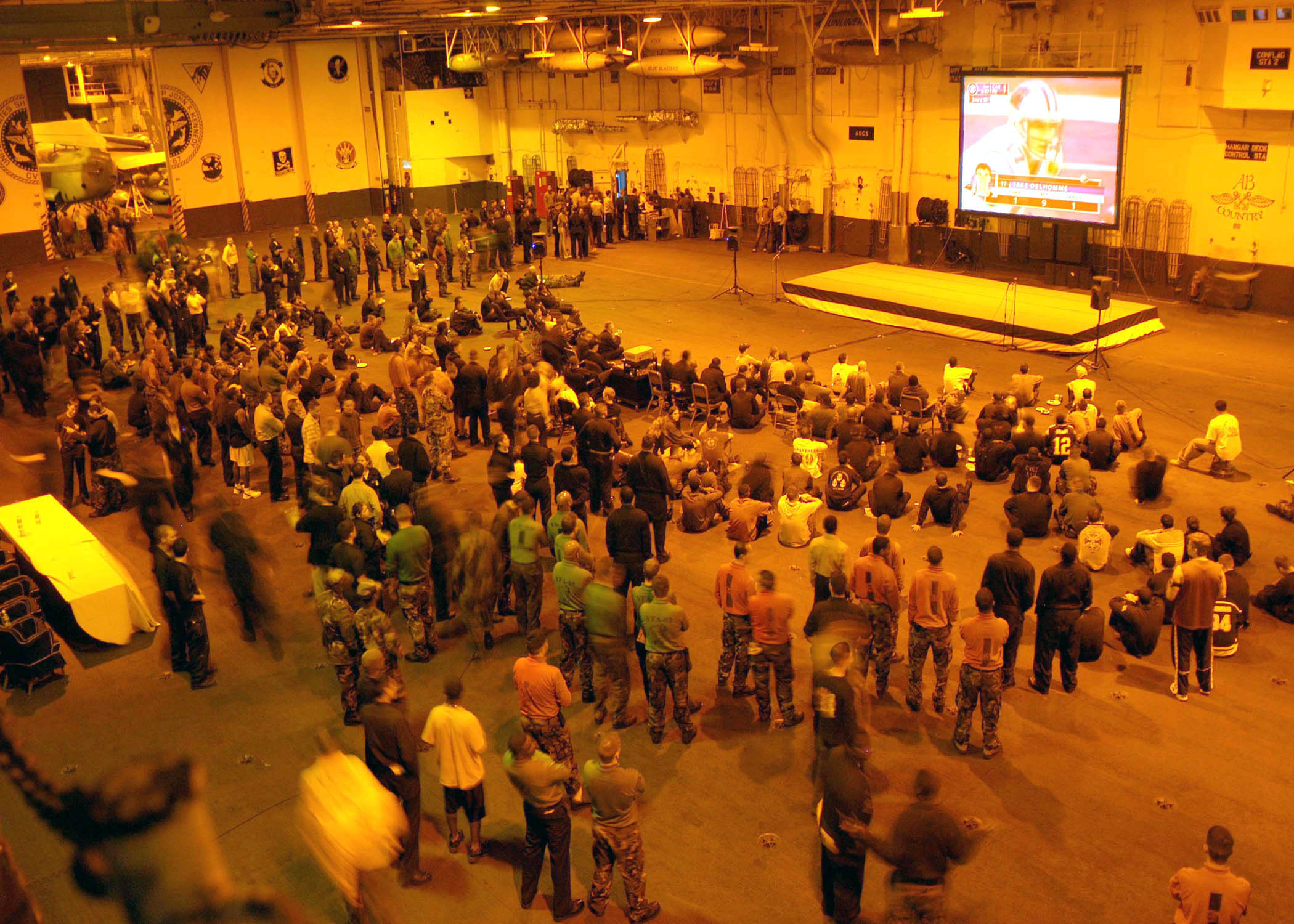 Aboard USS John F. Kennedy (CV 67) Feb. 1, 2004 – After the successful completion of carrier qualifications Sailors are gathered in the ship’s hangar bay to watch Super Bowl XXXVIII. U.S. Navy photo by Photographer’s Mate Airman William R. Heimbuch III. (RELEASED)